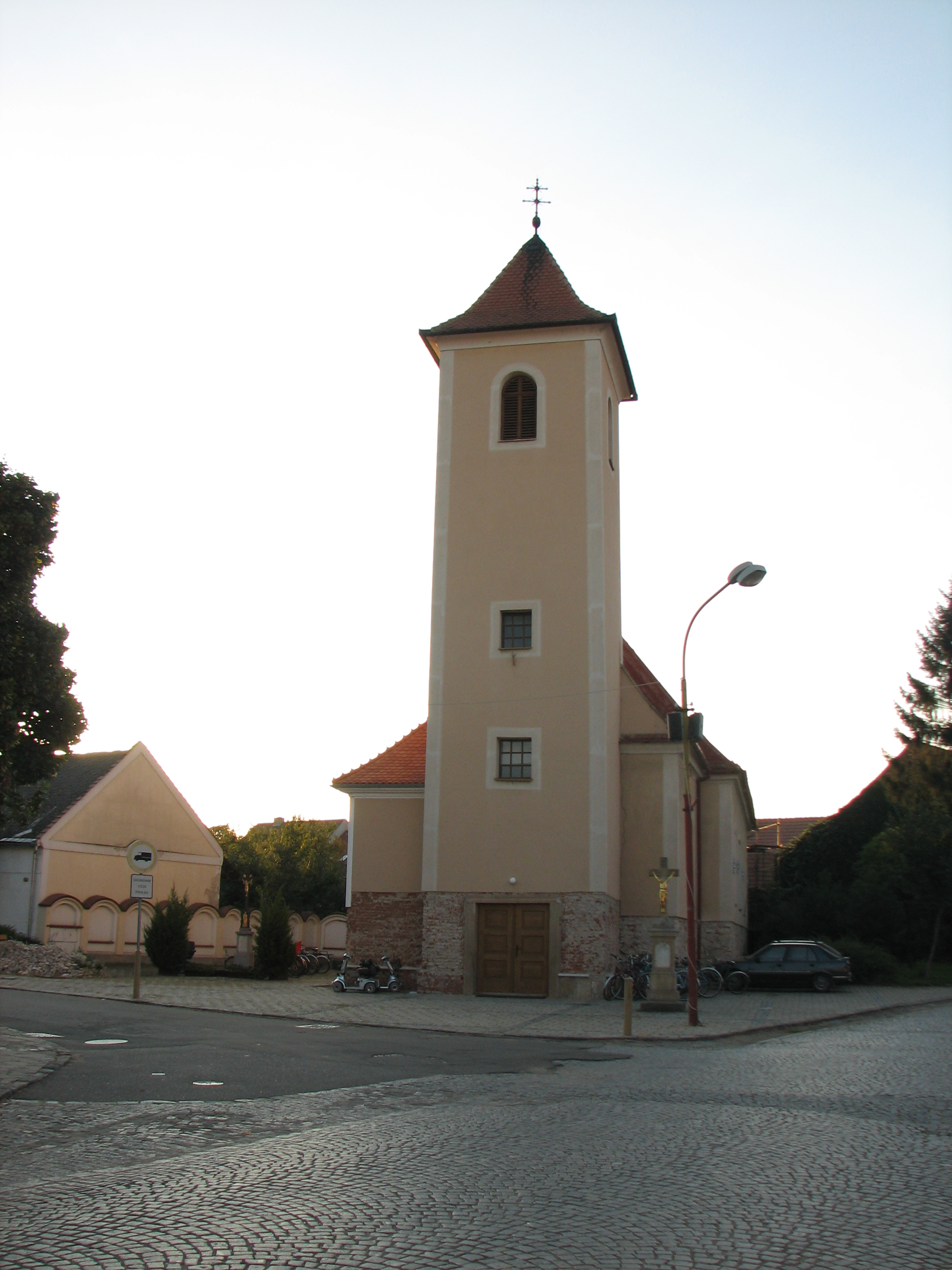 Church of Saint Michael the Archangel in Šardice, Hodonín District, Czech Republic